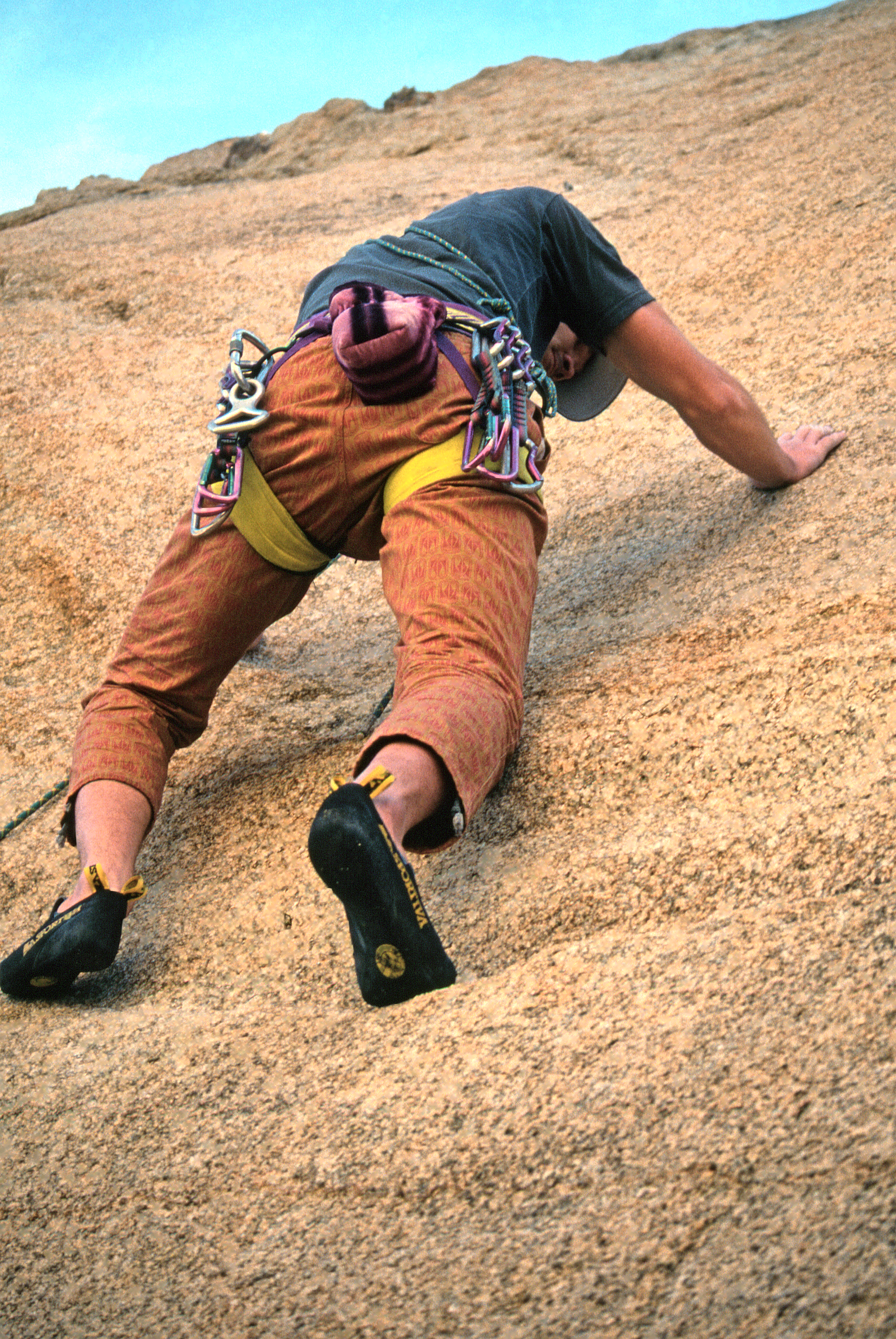 Climbing in Joshua Tree National Park.